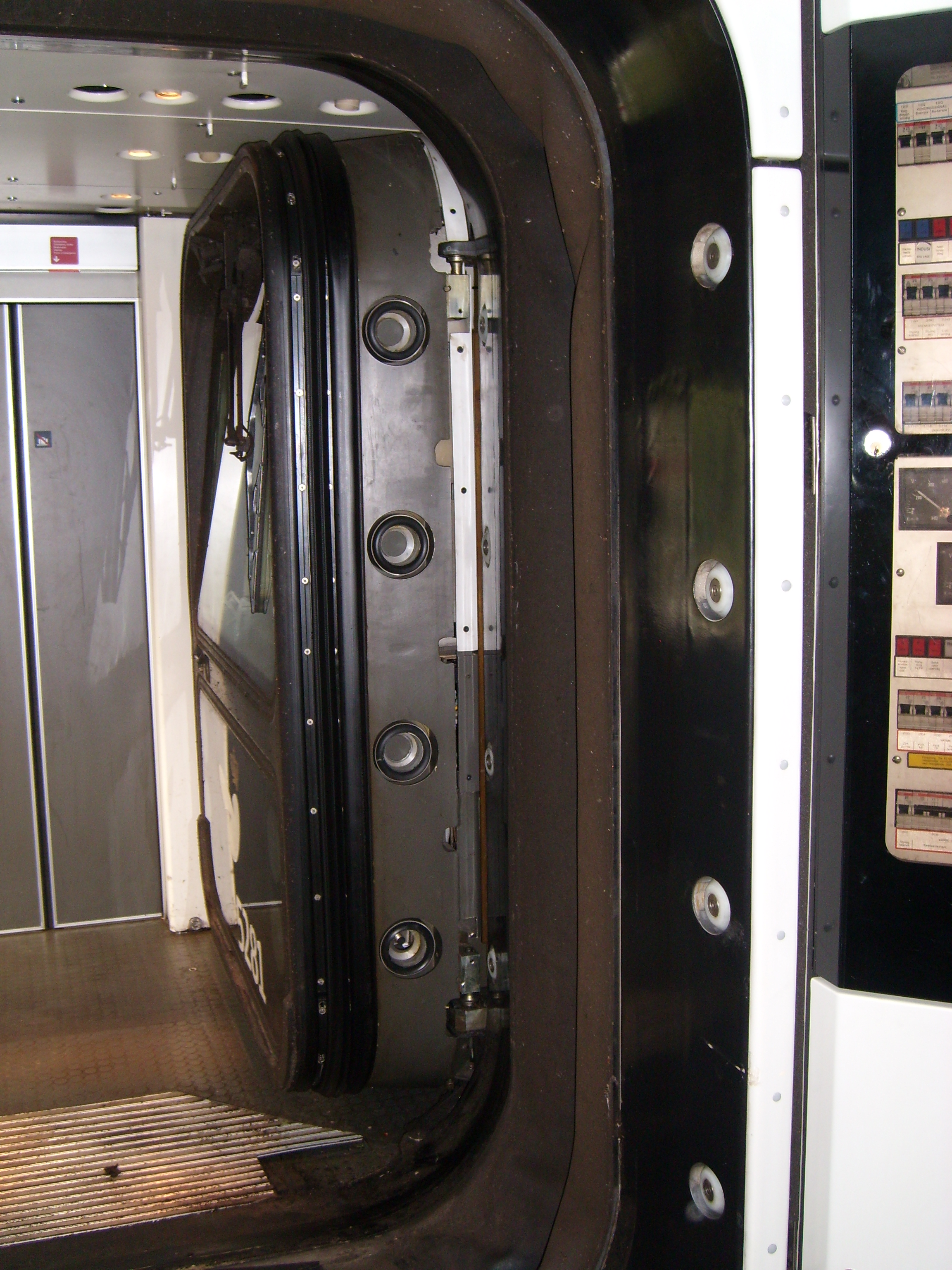 IC3 of the Danish national railway - retracted driver's cab